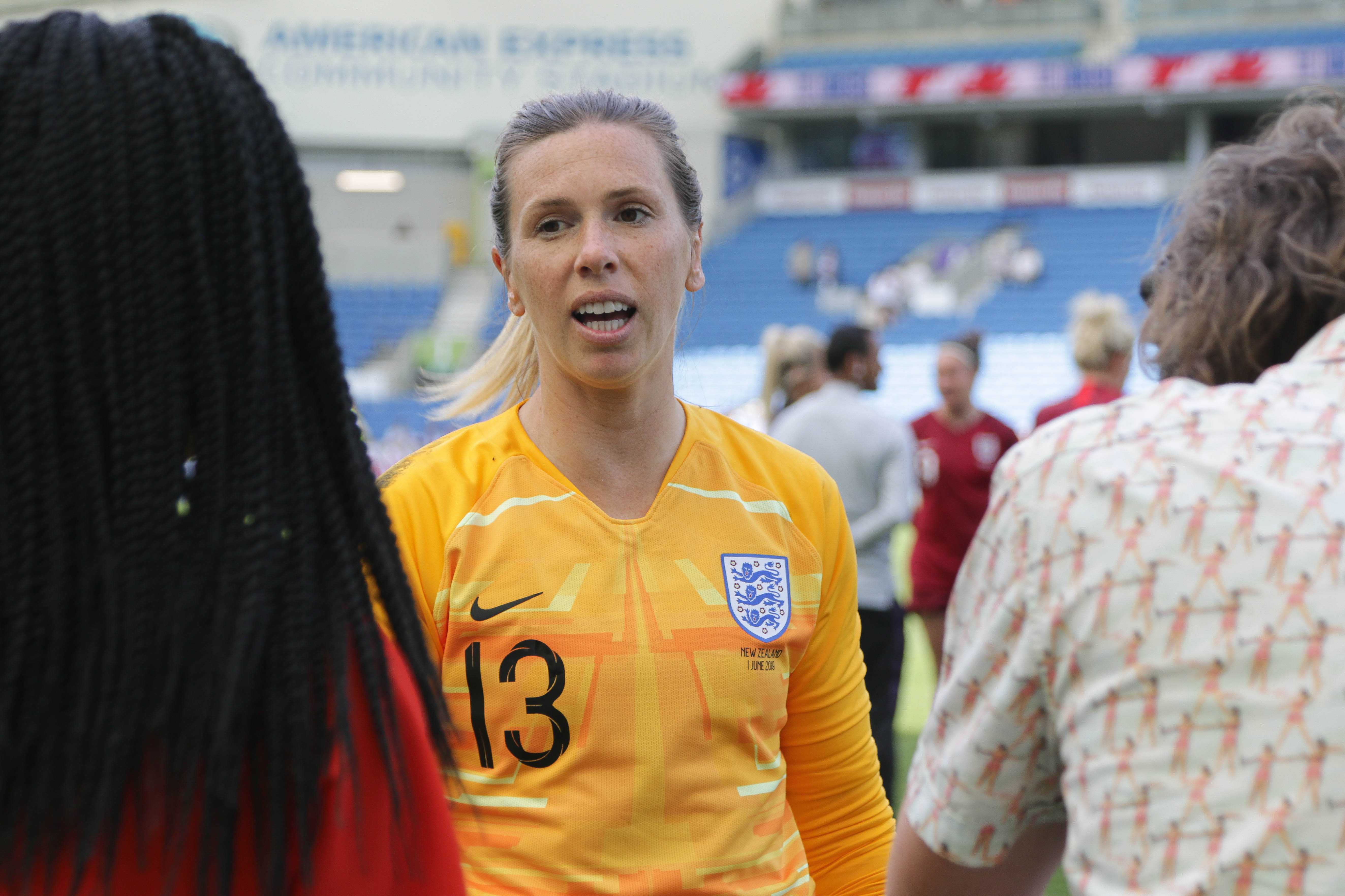 Depicted person: Carly Telford – English association football player